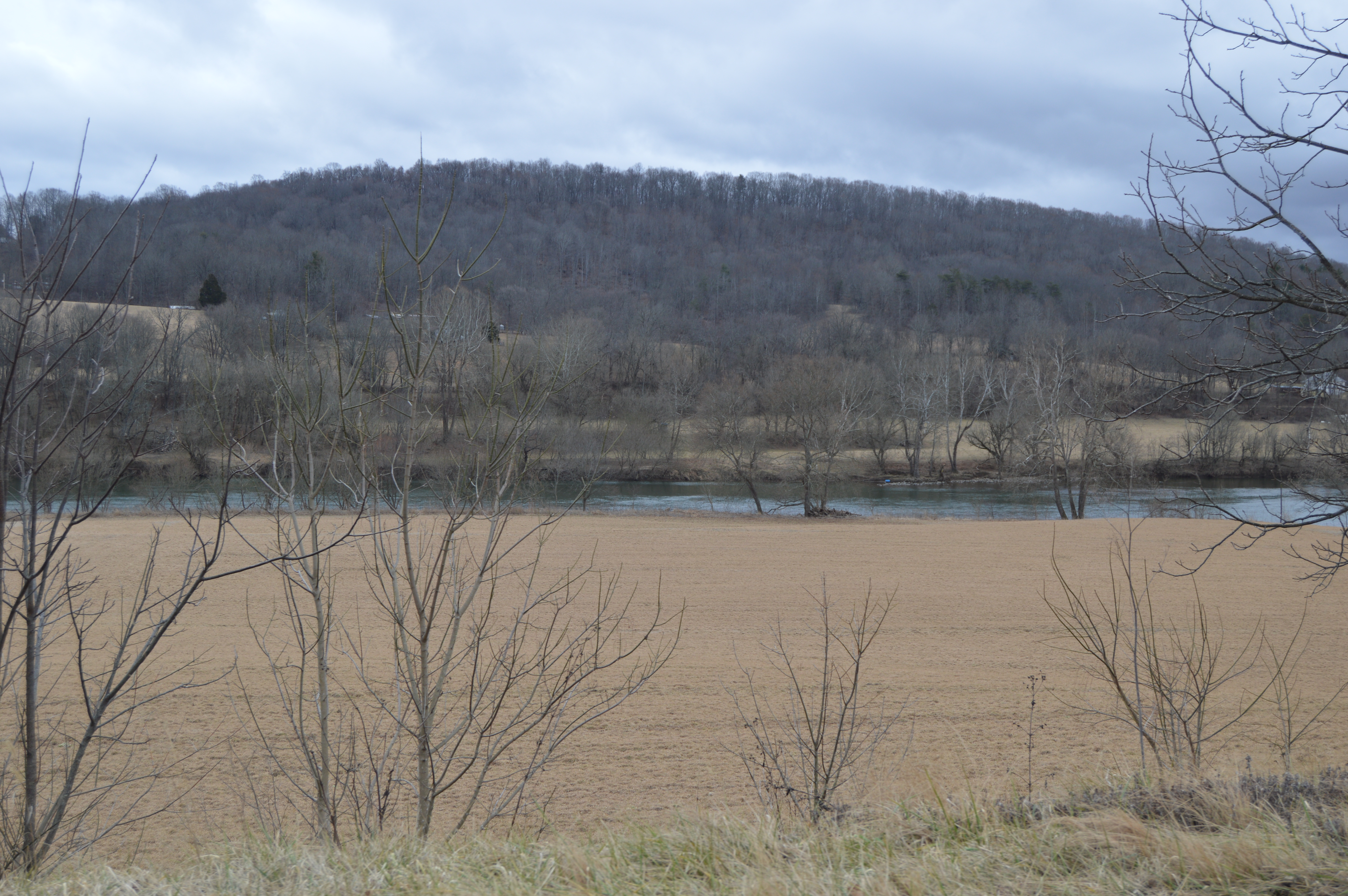 Looking south from Reed Creek Road over fields in the New River floodplain, immediately east of the Reed Creek confluence, in far eastern Wythe County, Virginia, United States. Much of the pictured part of the field comprises the Martin Site, a significant archaeological site that is listed on the National Register of Historic Places.